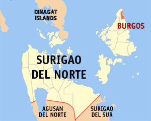 Map of Surigao del Norte showing the location of Burgos